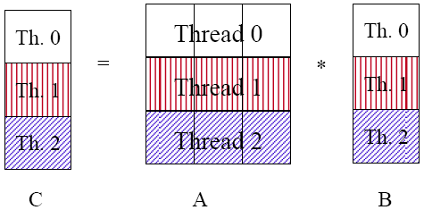 Рис. 5. Результат матричного множення